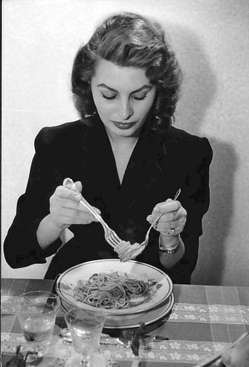 Photo of Sophia Loren eating spaghetti.